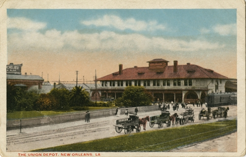 The old "Union Depot", New Orleans. Postcard view circa 1900 (note wagon traffic, no authomobiles) This was on South Rampart Street, now Loyola, just in front and slightly downriver from the current Union Passenger Terminal. Opened 1 June 1892, Louis Sullivan, architect.